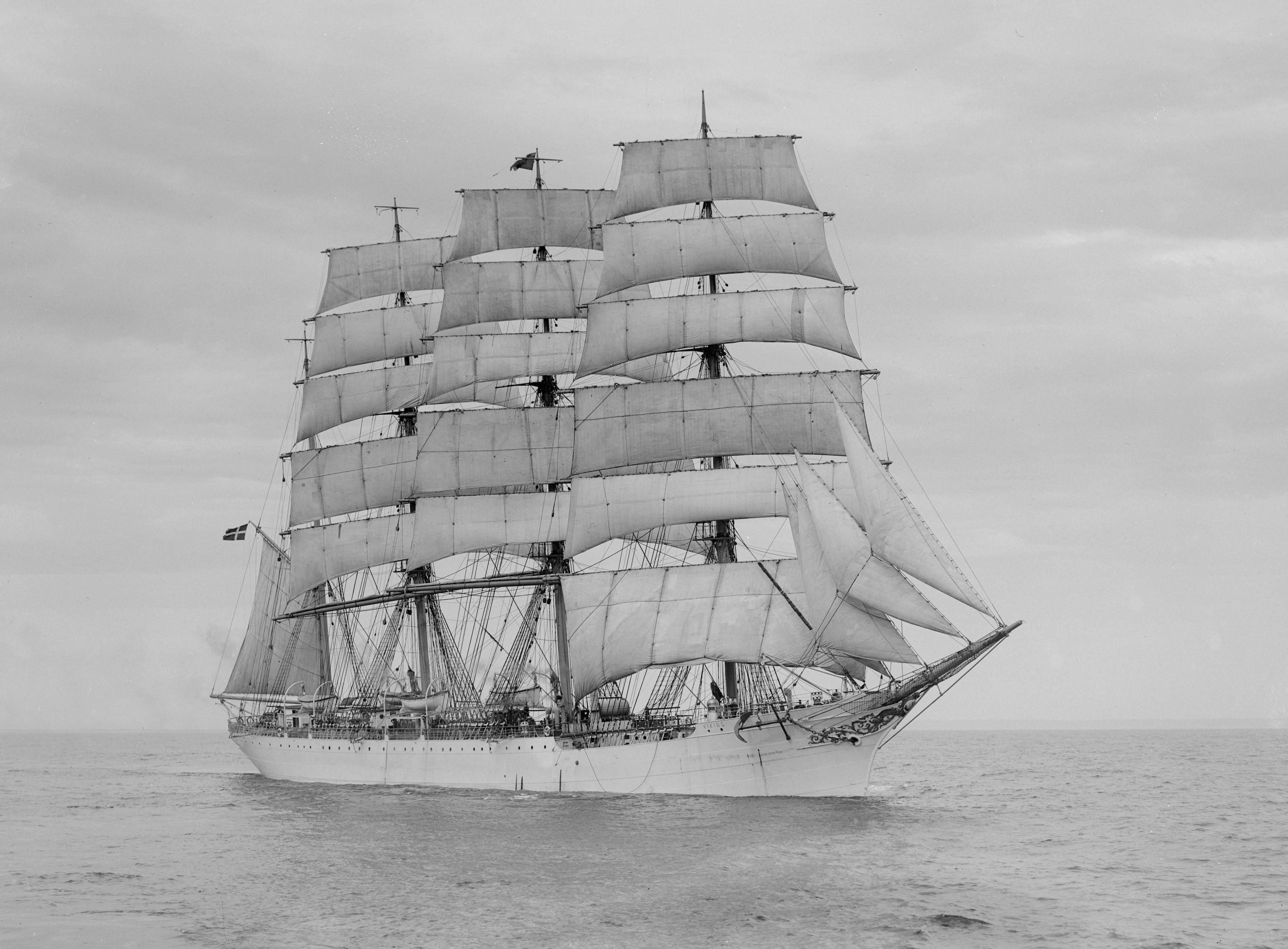 Viking, under Danish flag.